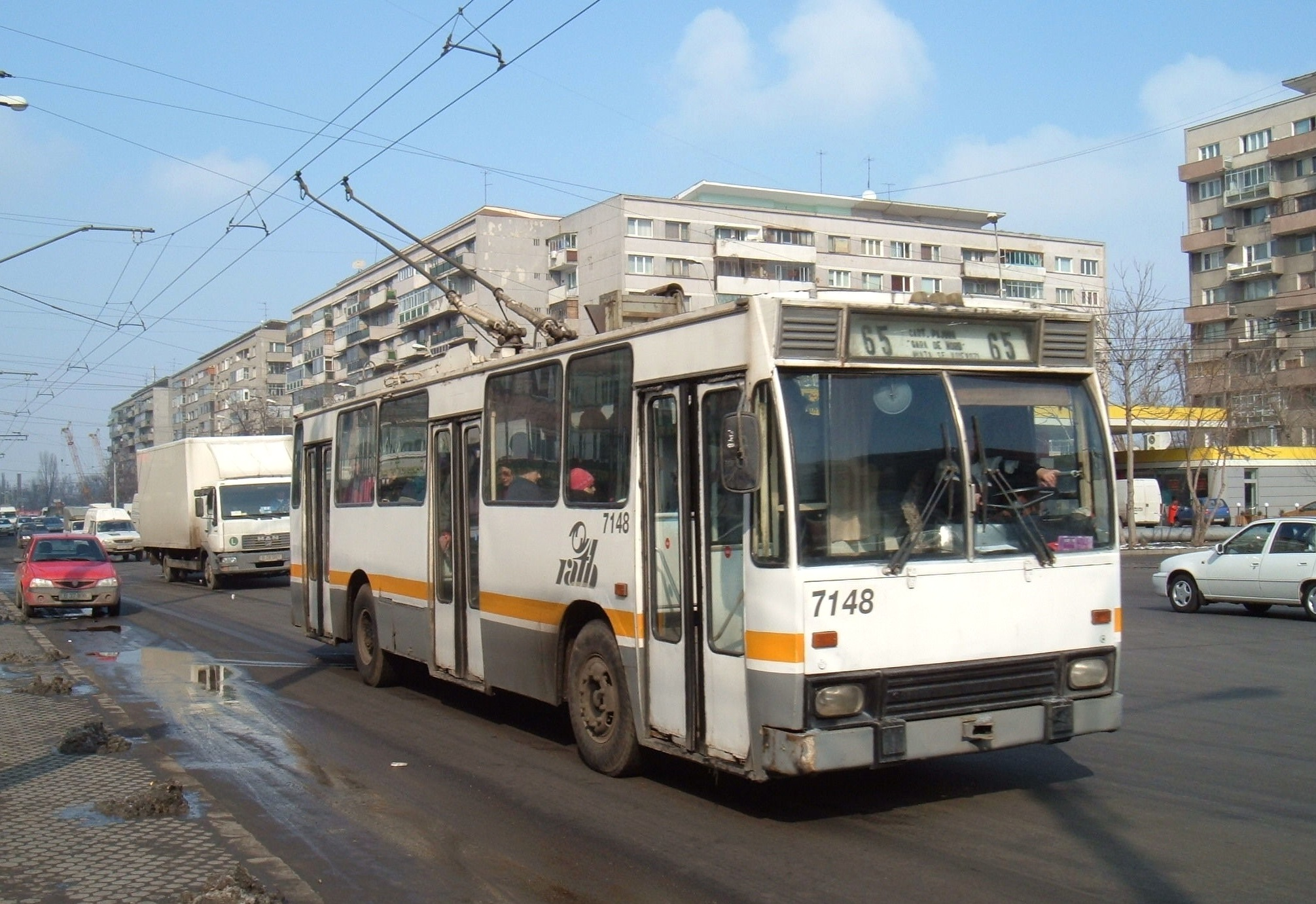 Bucharest trolleybus 7148 is a DAC 112E trolleybus, built in 1980 as an articulated (DAC 117E) trolleybus and later rebuilt as a two-axle vehicle. It is shown in service on route 65. It was scrapped in April 2007, and the last Rocar/DAC trolleybuses in use on the Bucharest system were withdrawn in October 2007.